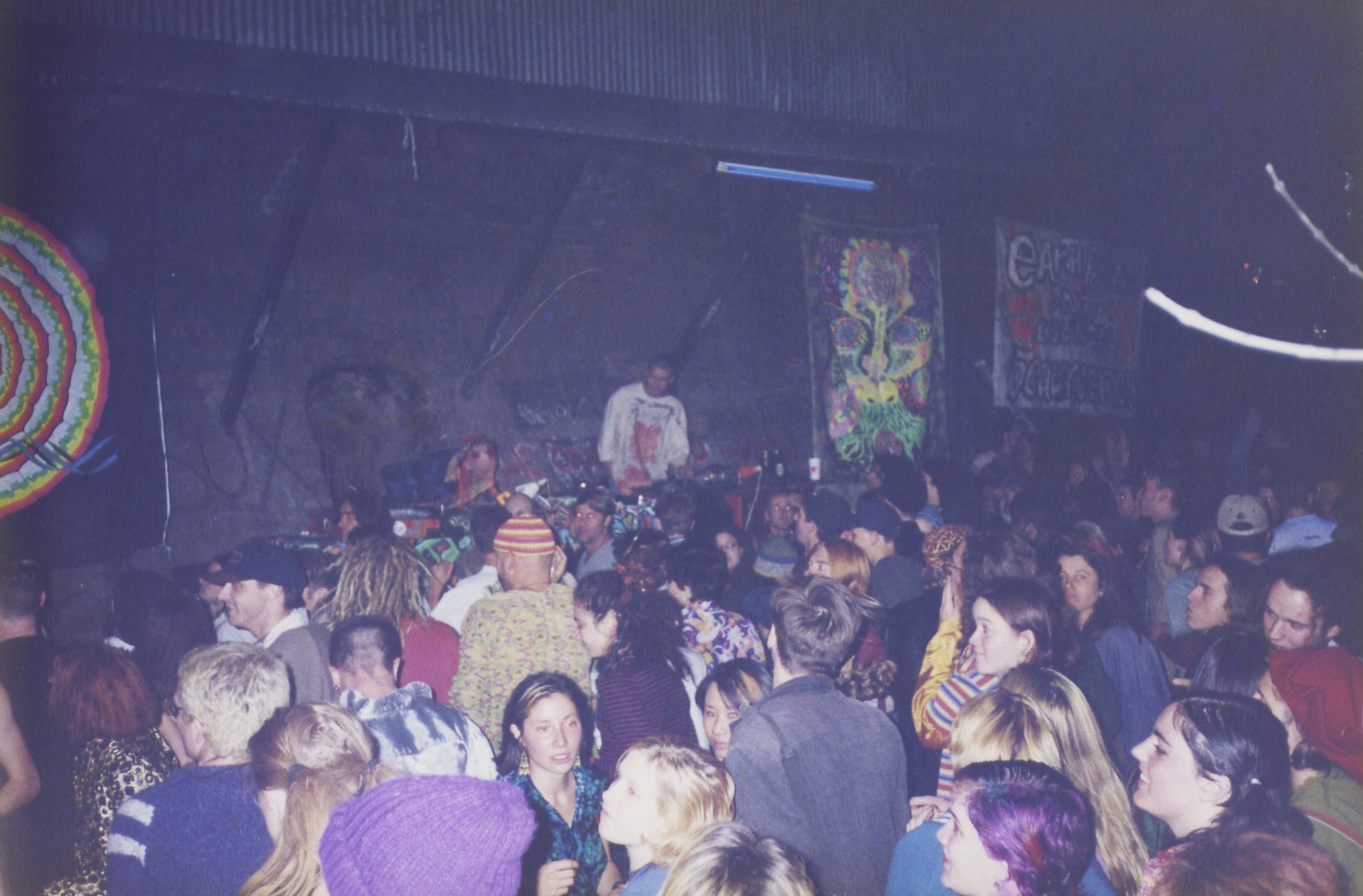 1995-04-08_Vibe_Tribe_04